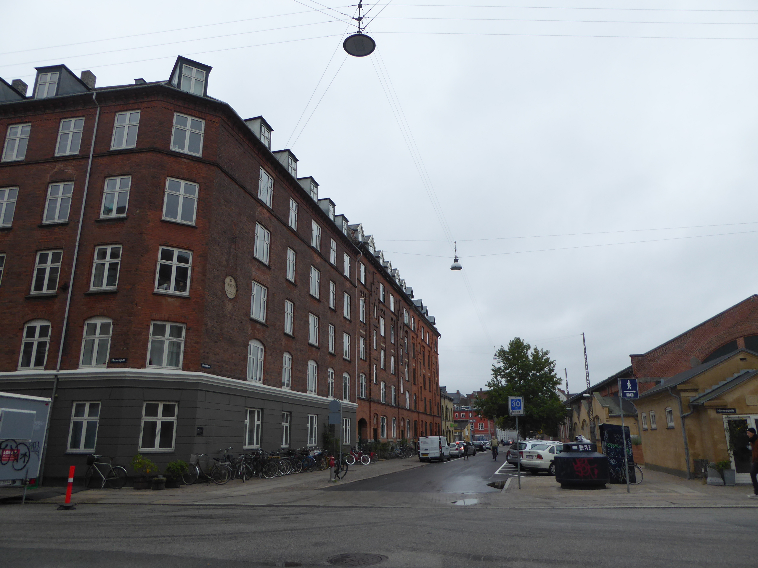 The street Bragesgade at Mimersgade in Nørrebro in Copenhagen.